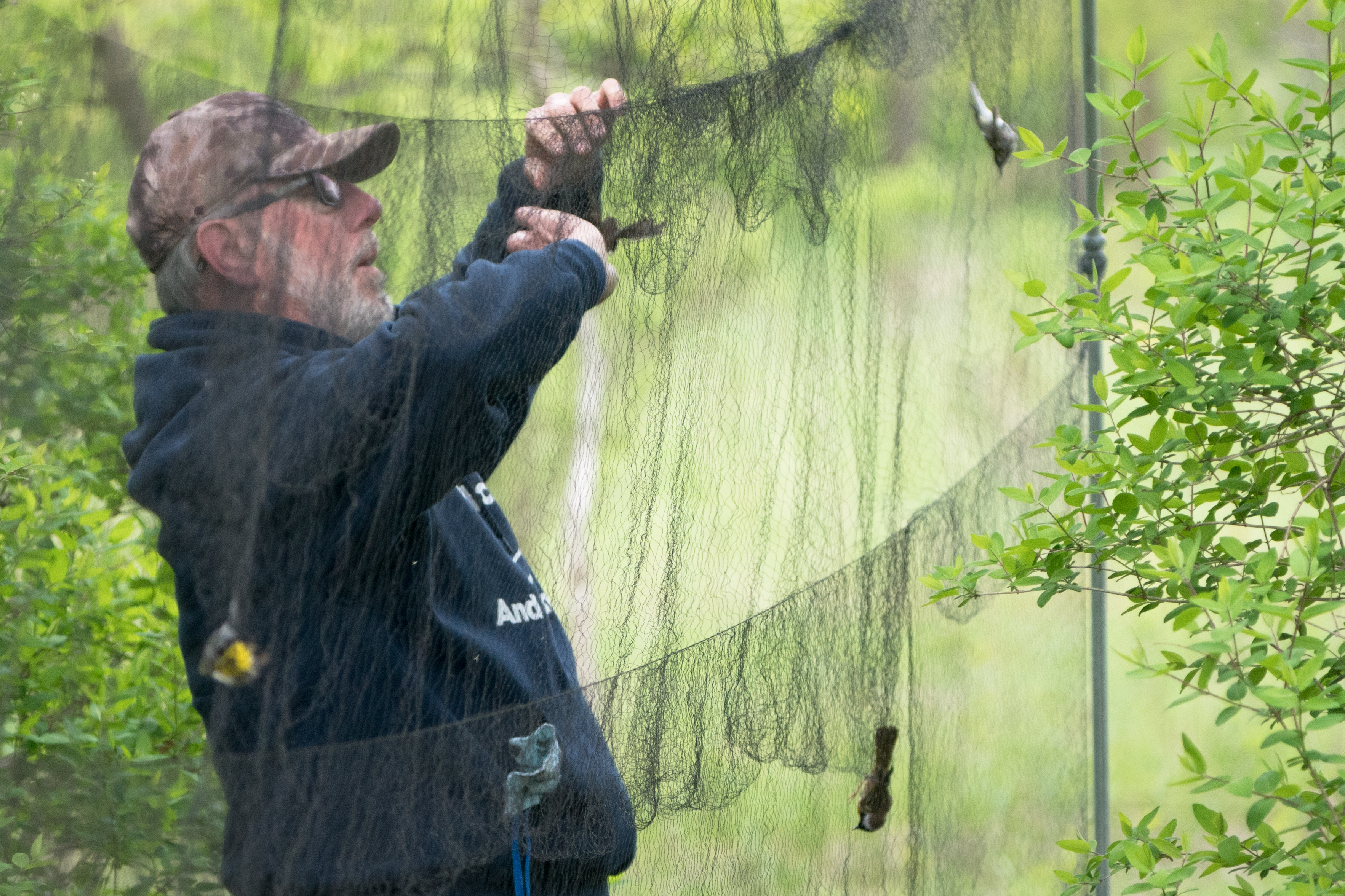 A researcher removes birds from a mist net at a bird banding station at Murphy-Hanrehan Park Reserve in Savage, Minnesota.